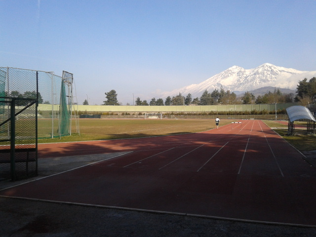 Athletics Stadium, Avezzano, Abruzzo, Italy